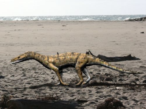 Turfanosuchus